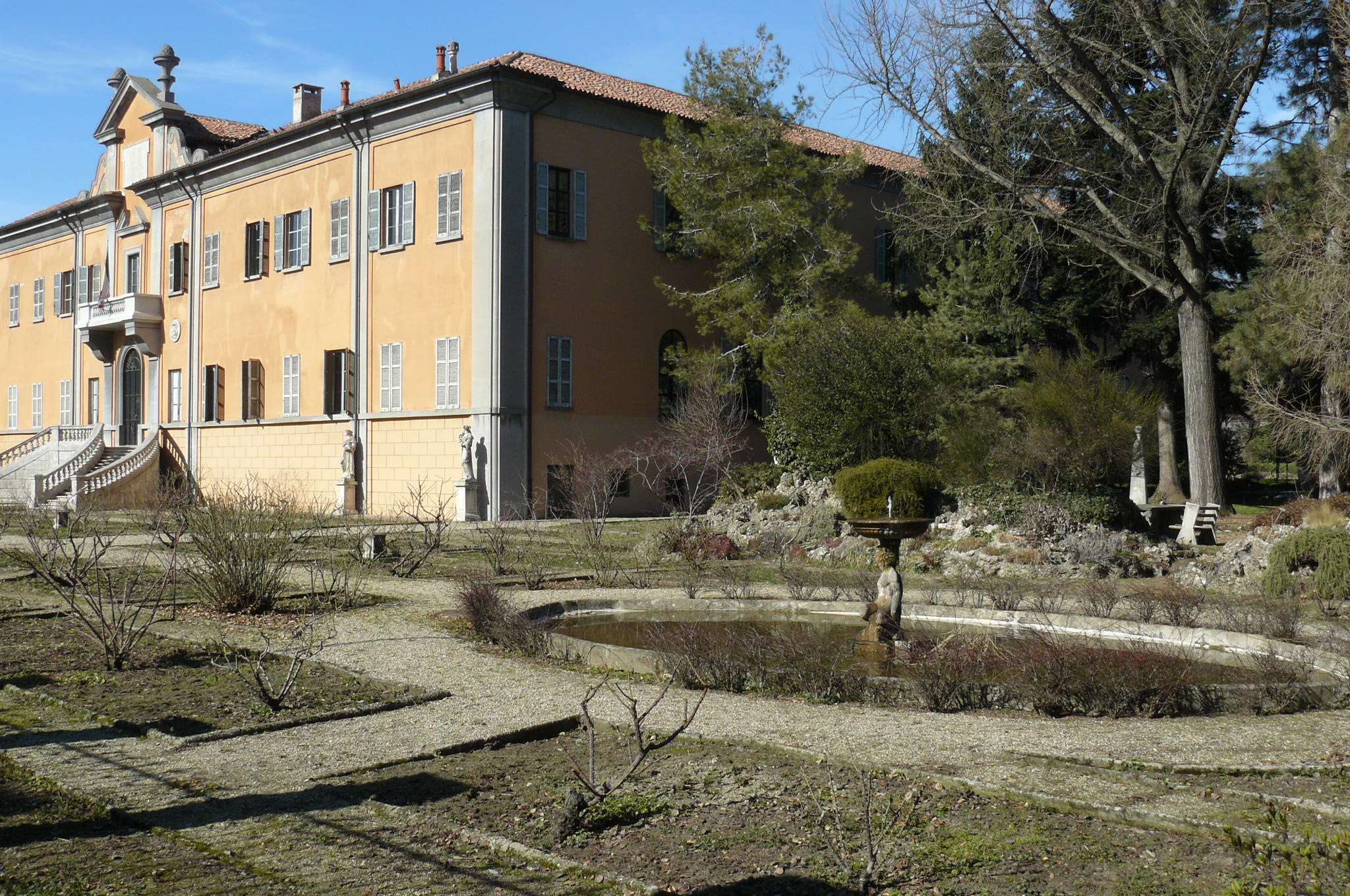 Botanical Garden - Pavia, IT.